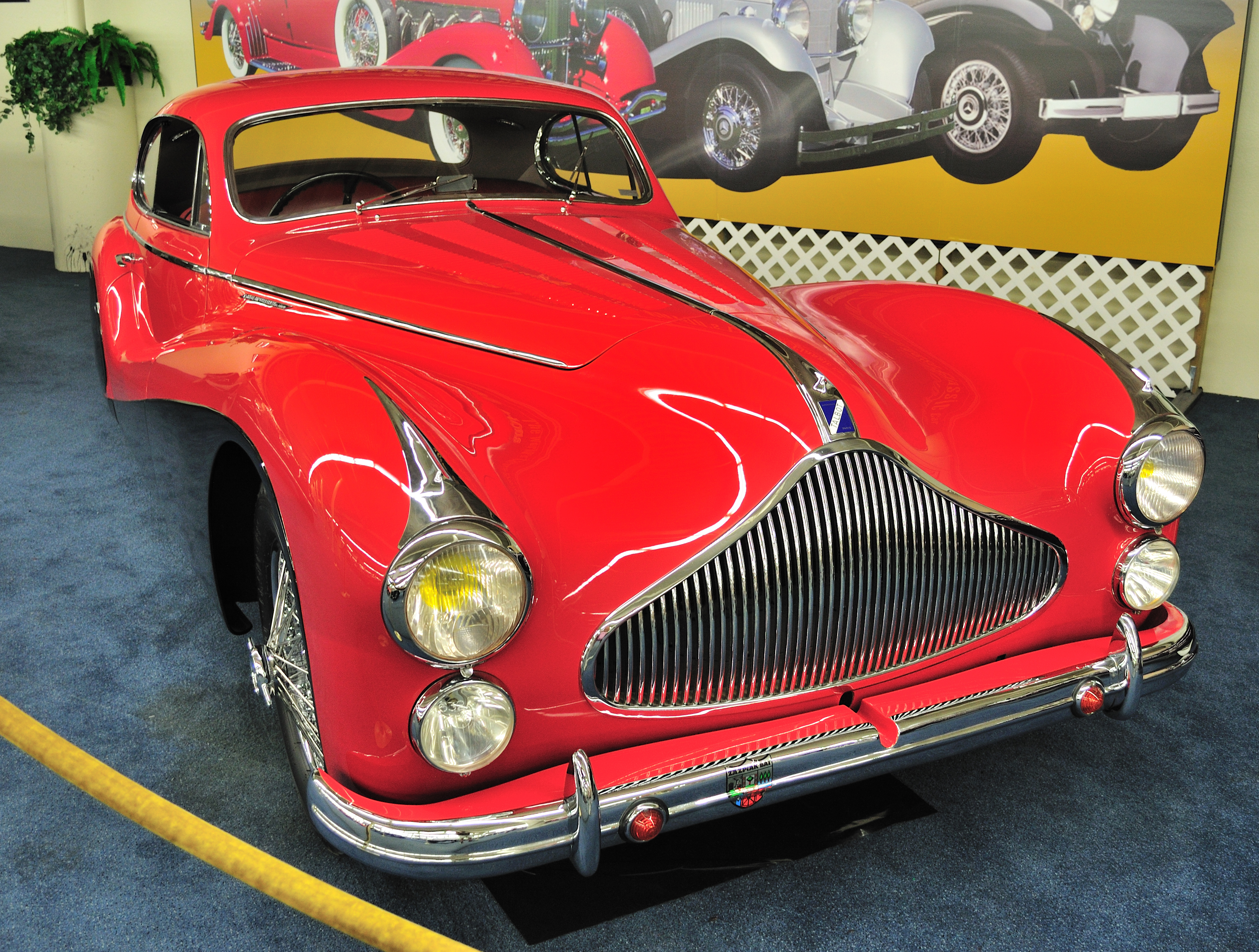 This one-of-a-kind coupé by Jacques Saoutchik has received acclaim throughout the world and is acknowledged to be an automotive work of art. This beautiful example is a former 1st in class winner at the Pebble Beach Concours d'Elegance.